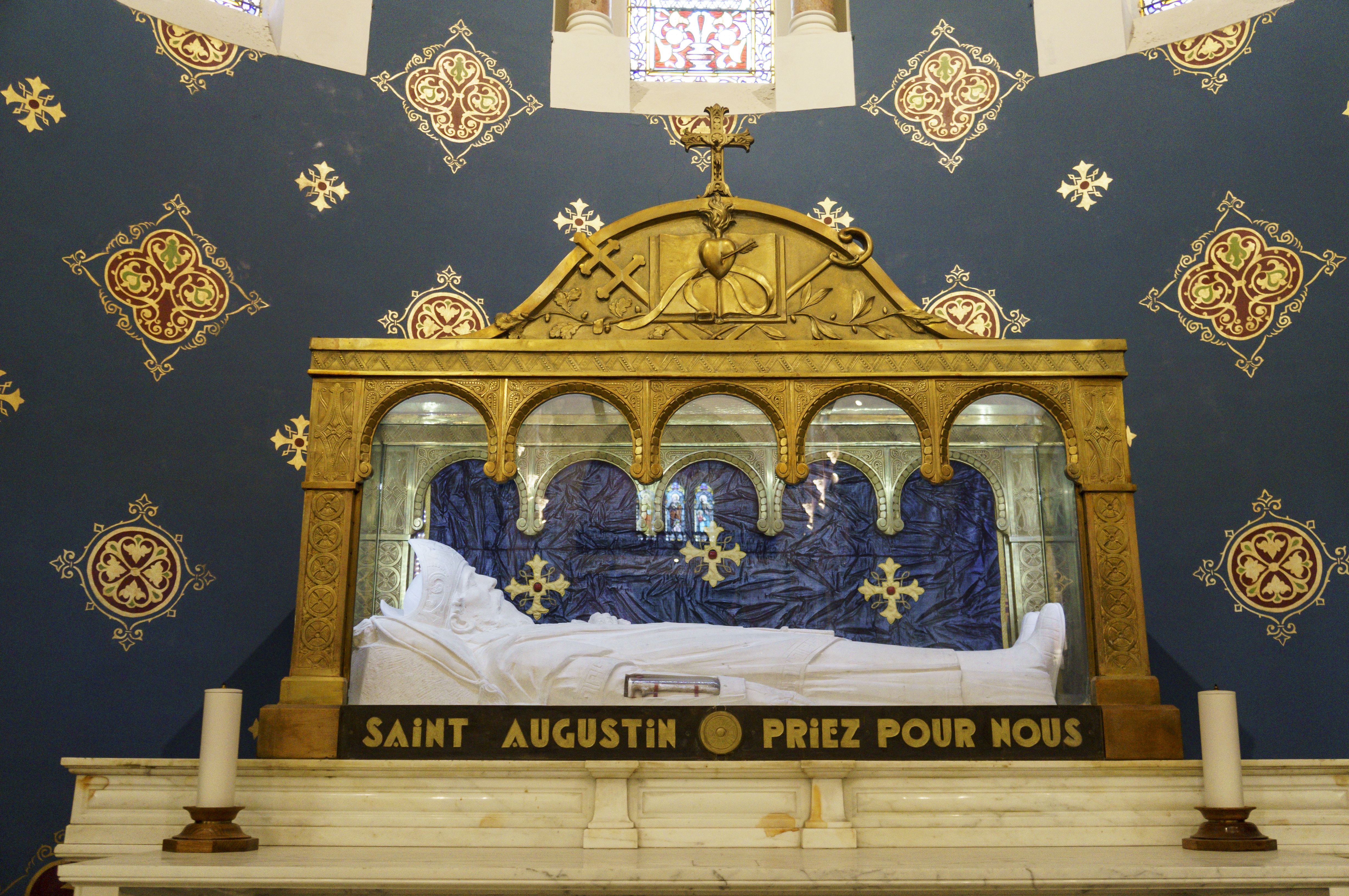 St. Augustine's Basillica, Hippo Regius